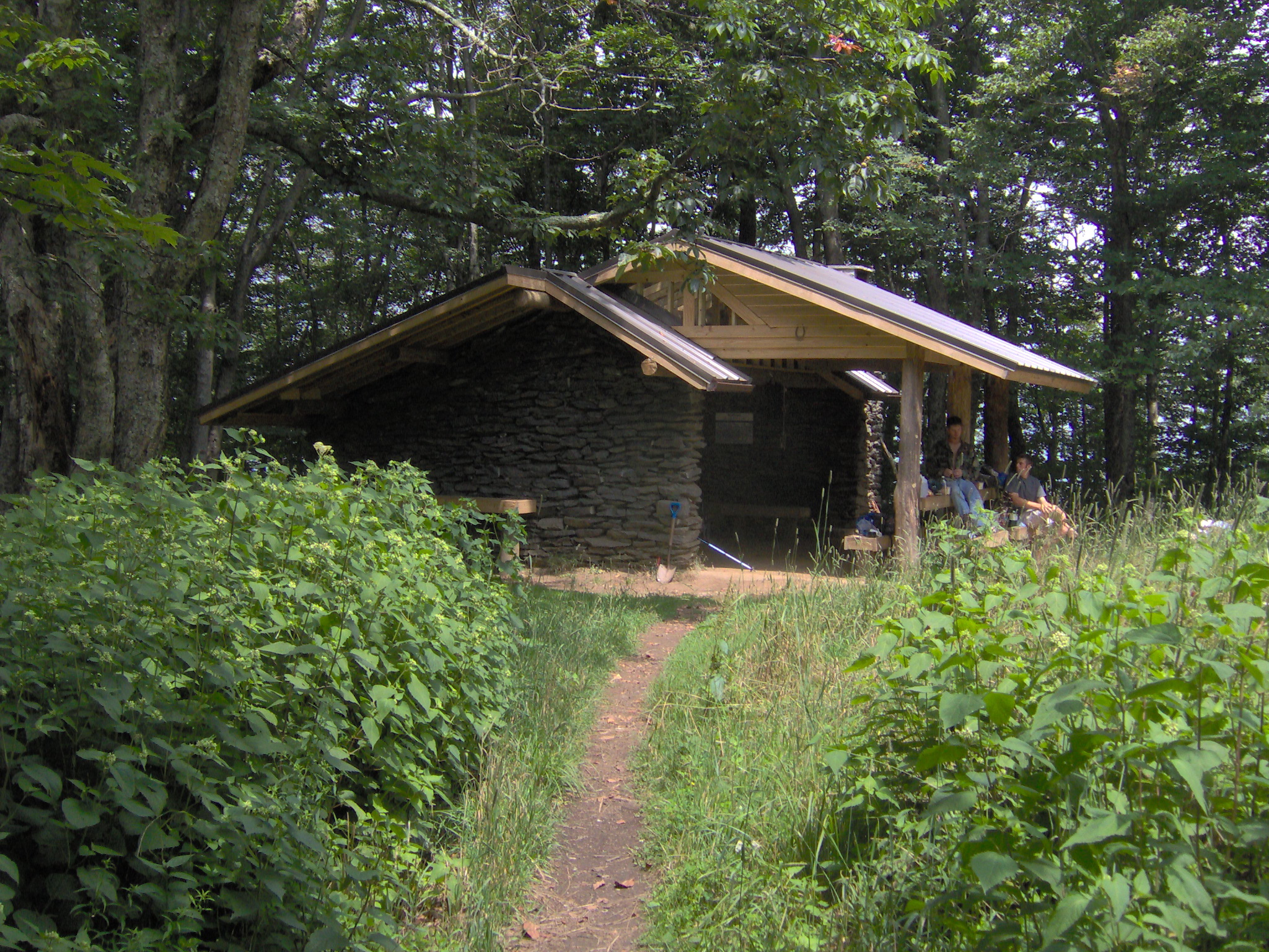 The Derrick Knob shelter, situated along the Appalachian Trail in the Great Smoky Mountains of the U.S. states of Tennessee and North Carolina. The shelter stands atop Big Chestnut Bald (appx. elevation 4,900ft/1490m) in the vicinity of what was once Hall cabin, a herder's shack mentioned often in the Horace Kephart book Our Southern Highlanders. The forest has reclaimed most of the bald, and only a minor remnant of the once vast pasture remains.